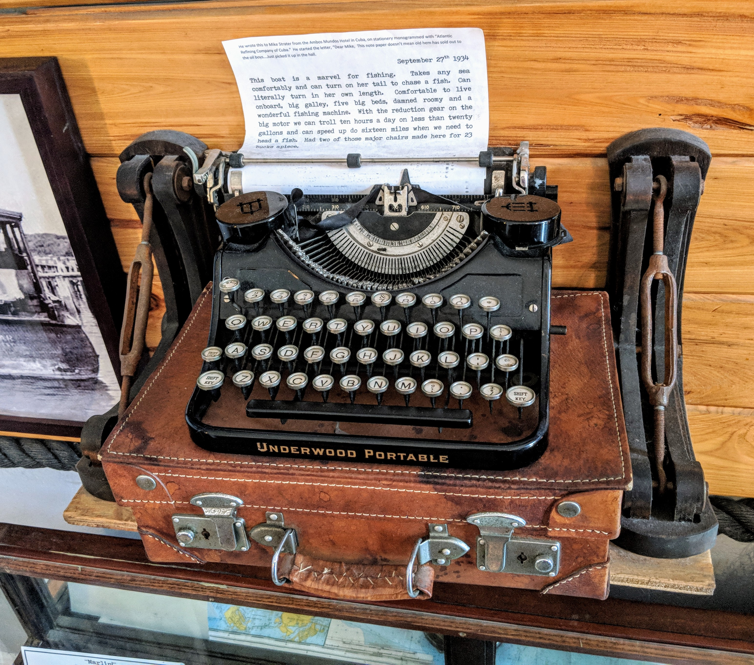 An Underwood portable typewriter and leather case, owned by Ernest Hemingway. Photo by Jim Heaphy.